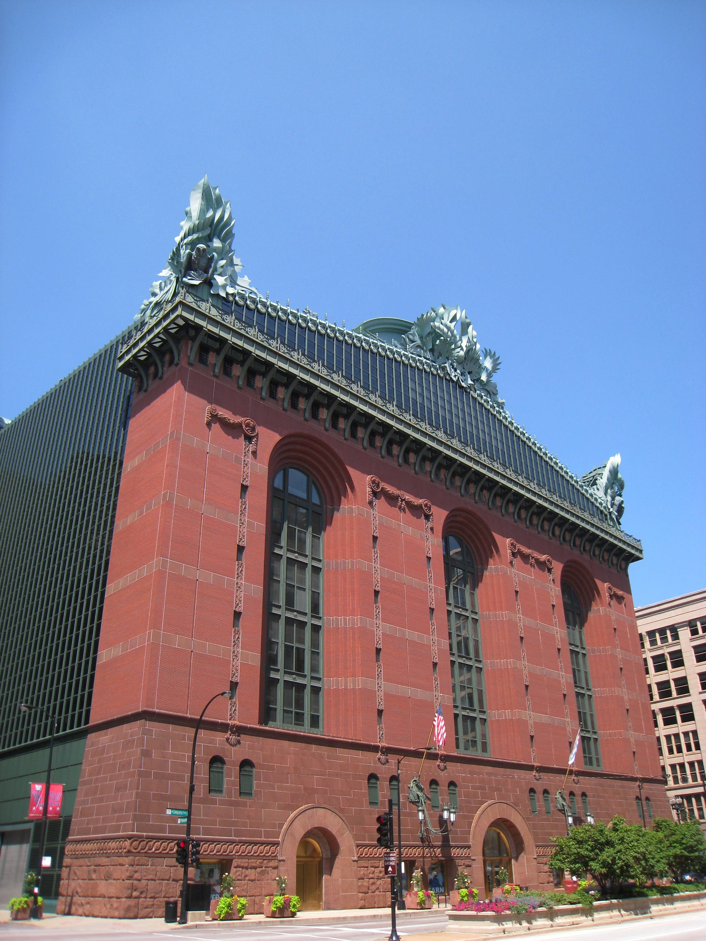 Harold Washington Library, Chicago, Illinois - front oblique view.